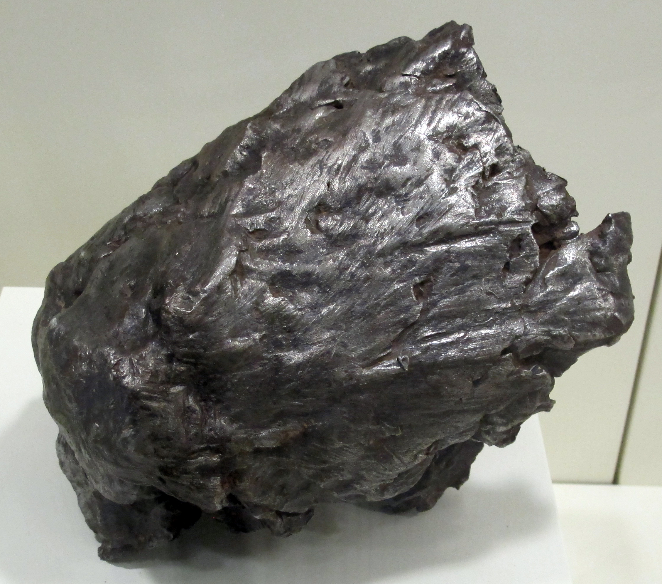 Sikhote-Alin meteorite. Museo di storia naturale (Florence) - Mineralogy section.